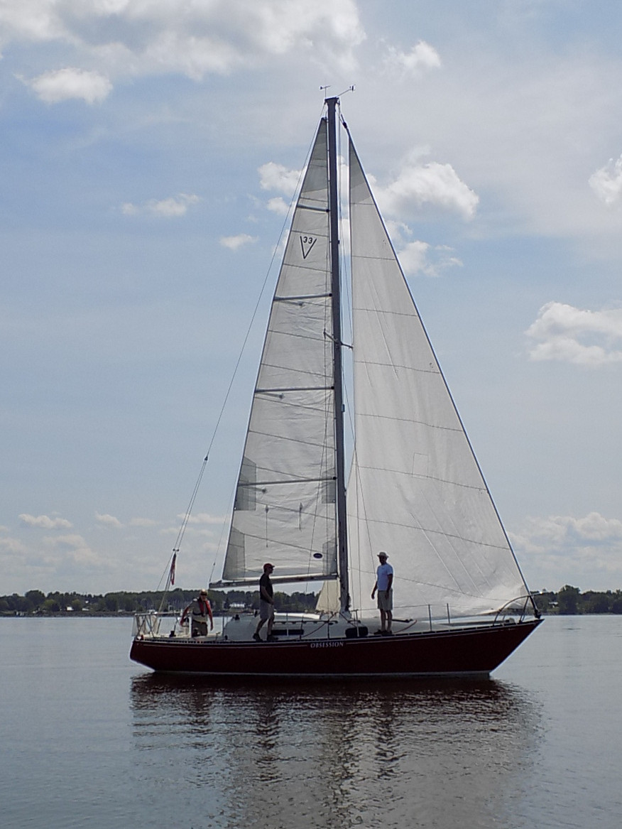 A Viking 33 sailboat named Obsession.